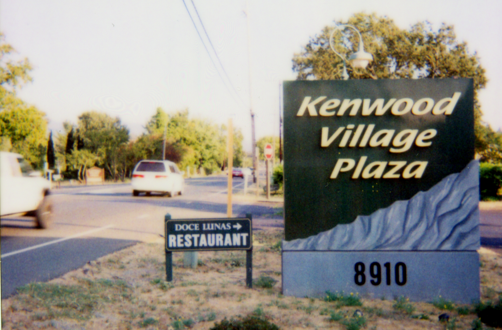 Documentary snapshot of mall sign along State Route 12 in Kenwood, California. Mall may be near the approximate center of the community and houses the community's US Post Office. Polaroid snapshot image taken in 2006. Photo by David Jordan. Please credit the photographer when using this photo.